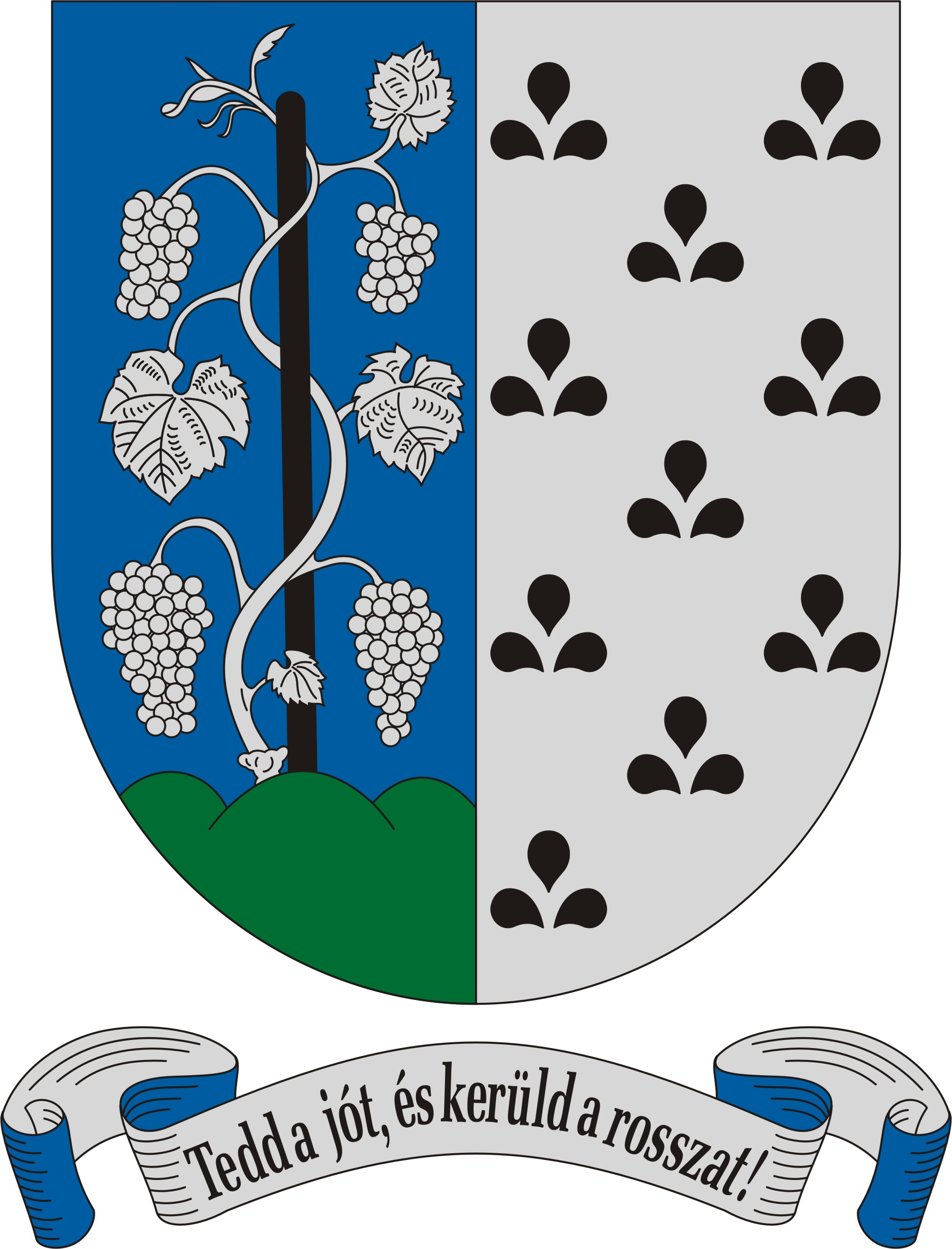 Coat of arms of Szank, Hungary